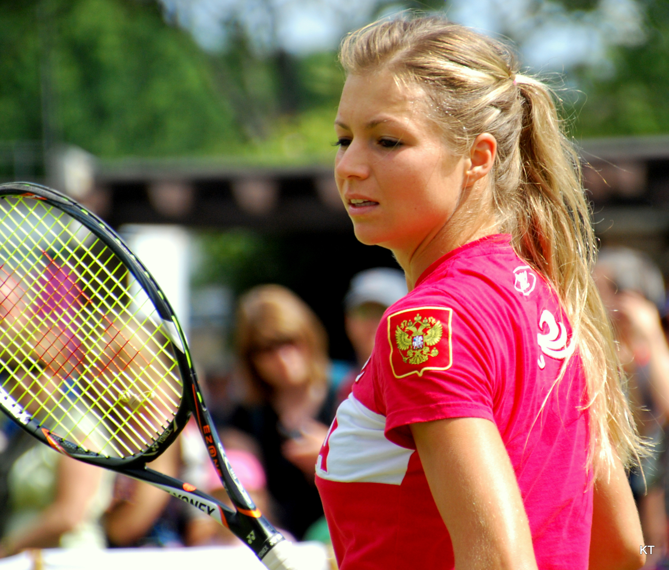 Maria Kirilenko on the practice court with Russian team-mate and doubles partner Nadia Petrova, before her first round match in the London 2012 Olympics at Wimbledon.